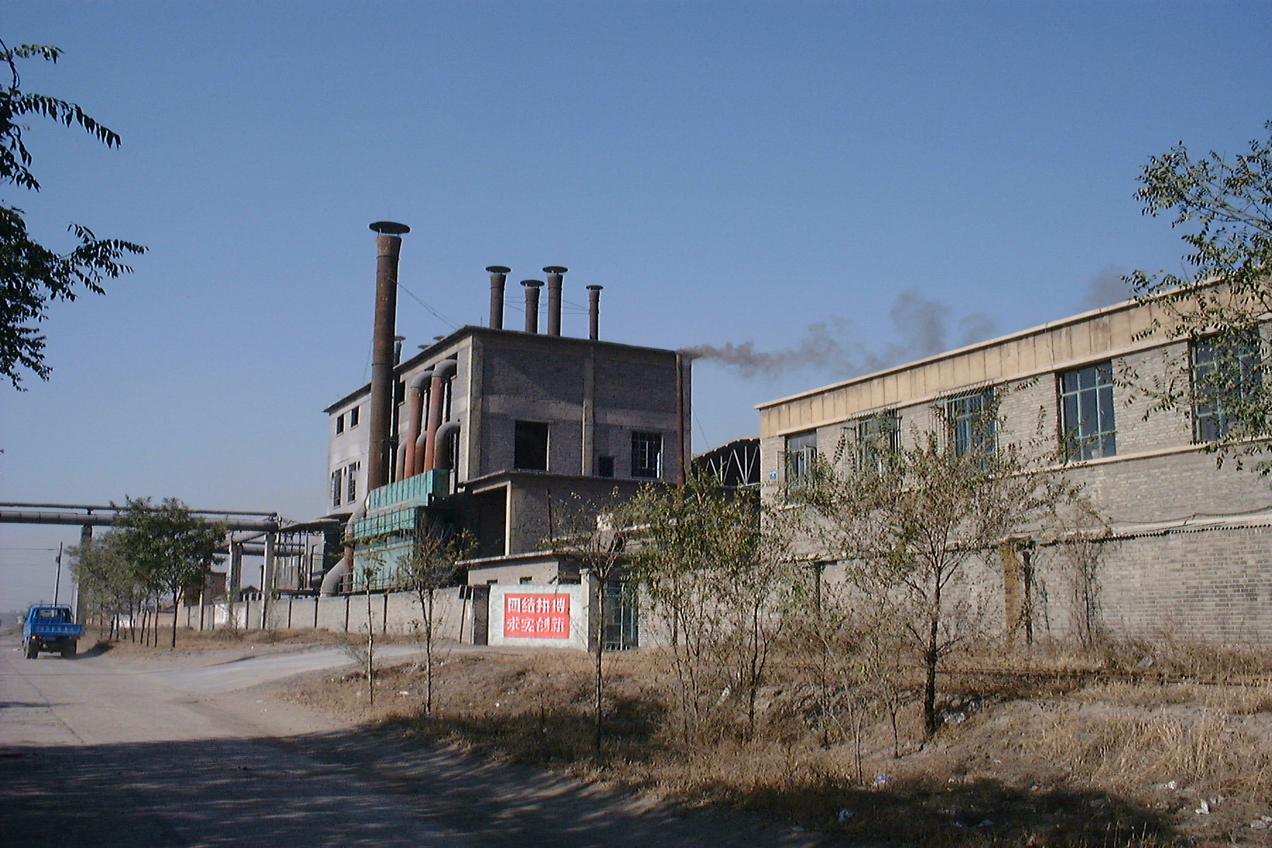 Factory in Datong, Shanxi, China